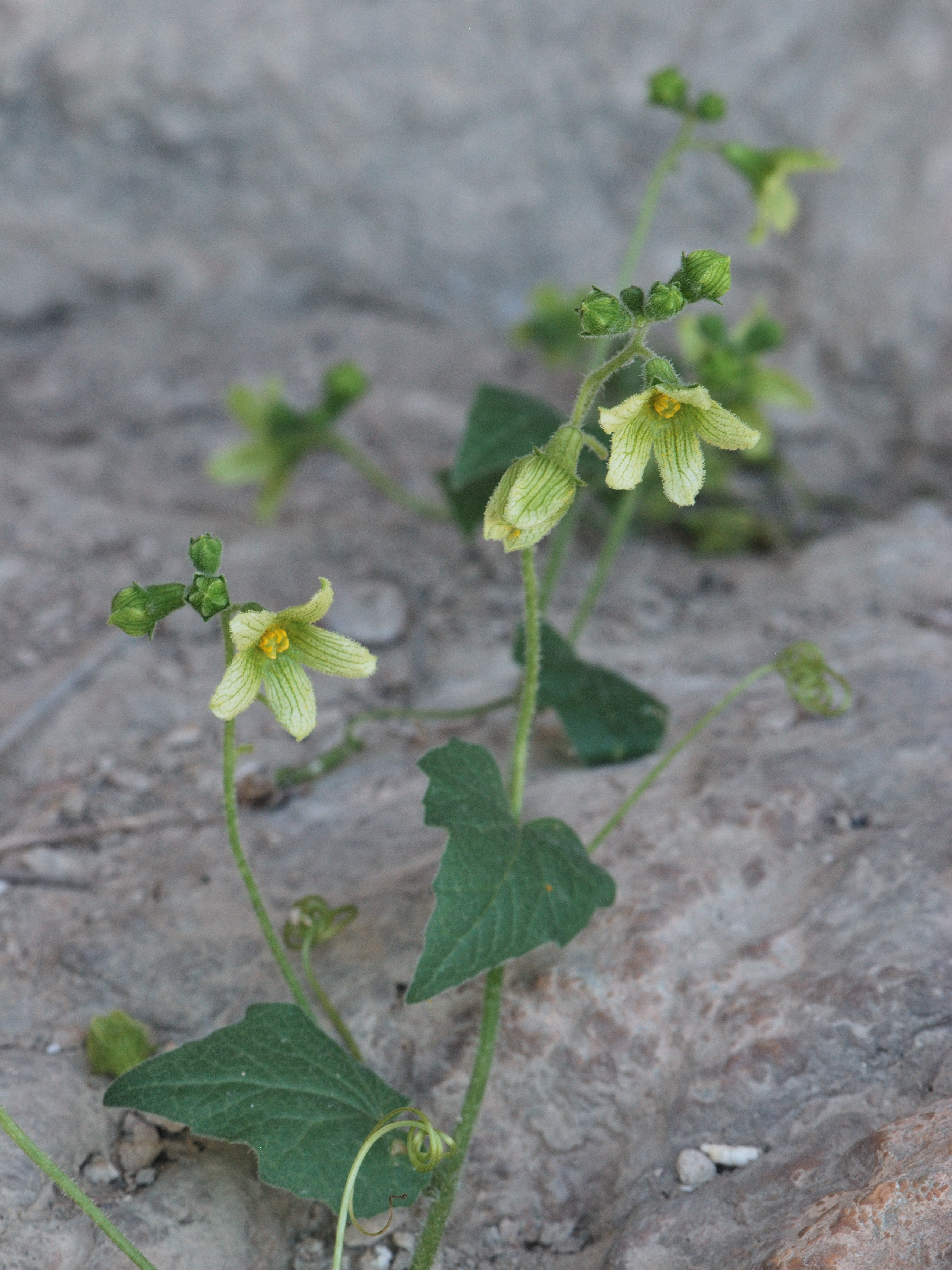 Bryonia syriaca Boiss., male plant in bloom, Mount Carmel, Israel, March 13, 2011.